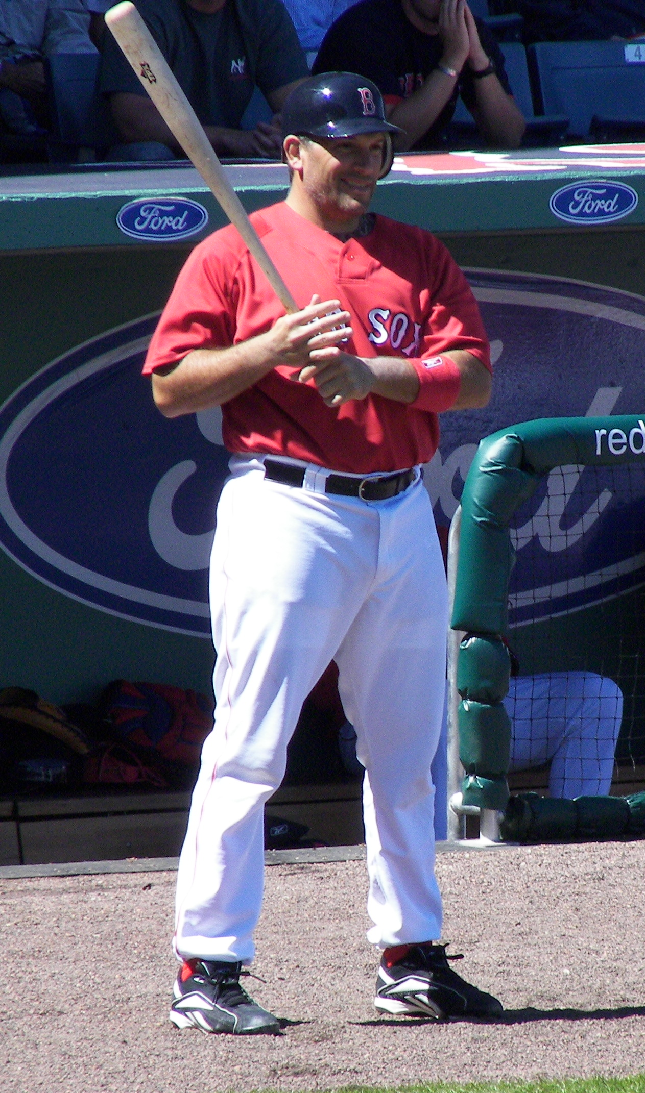 Boston Red Sox catcher Doug Mirabelli on-deck for the Red Sox/Los Angeles Dodgers spring training game at City of Palms Park in Fort Myers, Florida.